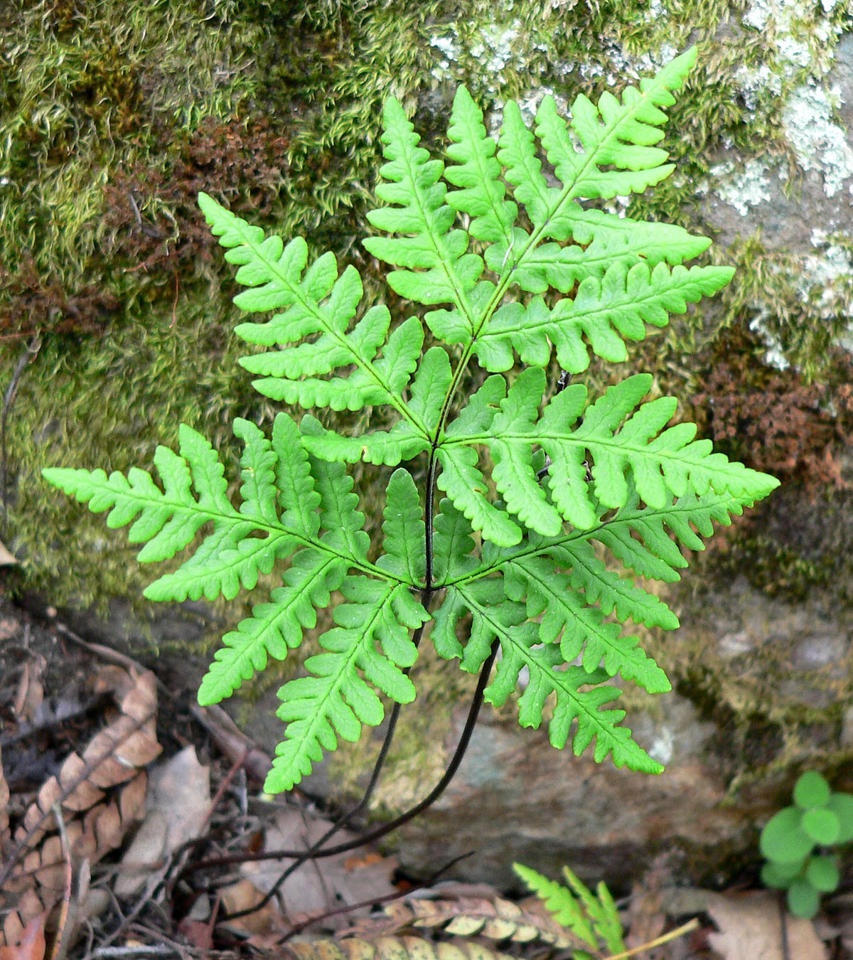 Photo of Pentagramma triangularis var. viscosa at the Regional Parks Botanic Garden, Berkeley, California